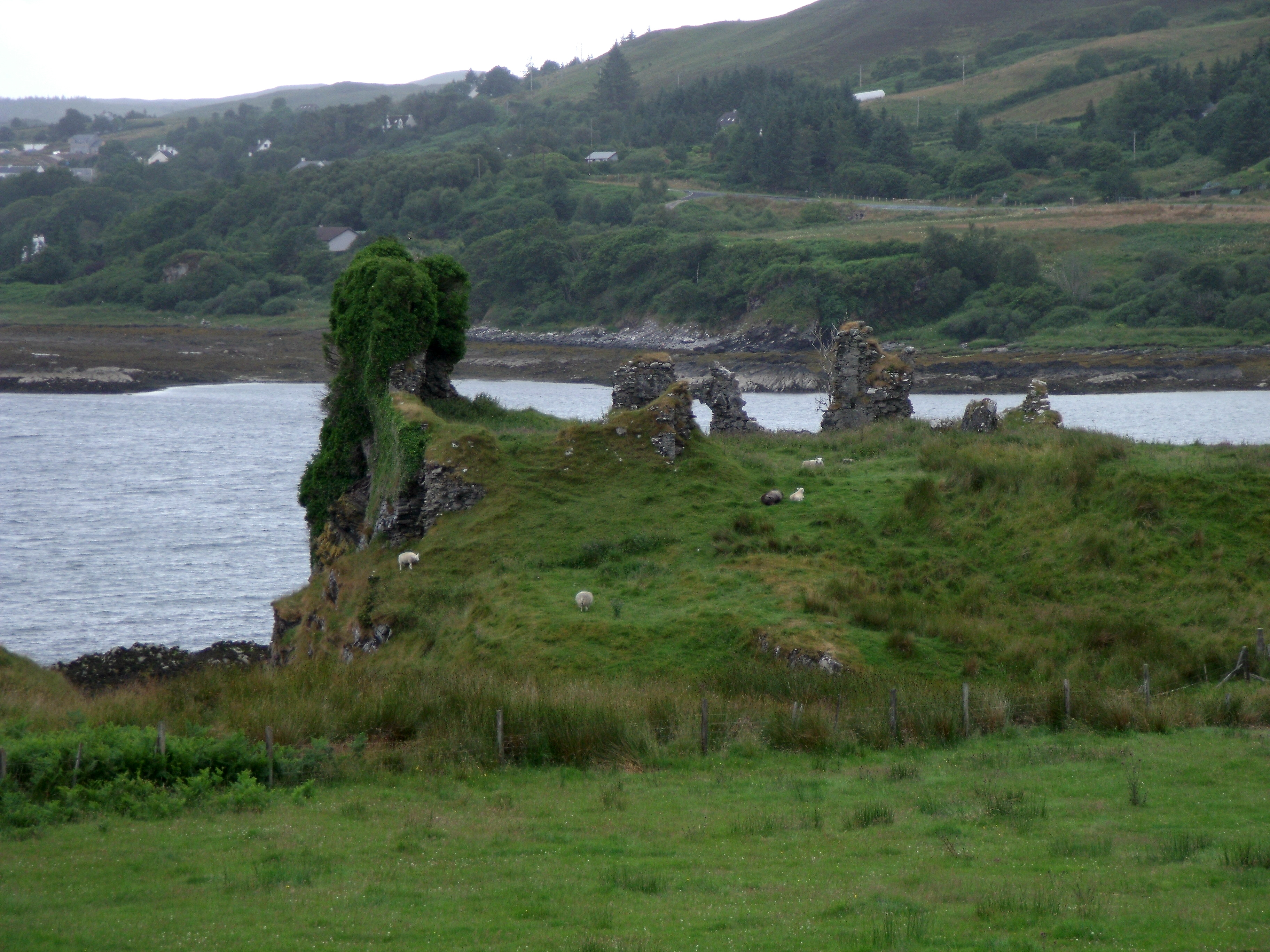 Caisteal Camus Caisteal Camus - or Knock Castle - is situated on the east coast of the Isle of Skye. First the seat of the MacLeods it was captured by the MacDonalds in 15th century. The castle is abandoned since 1689 and it is hard to get to the ruin because there is no footpath and wet grass.